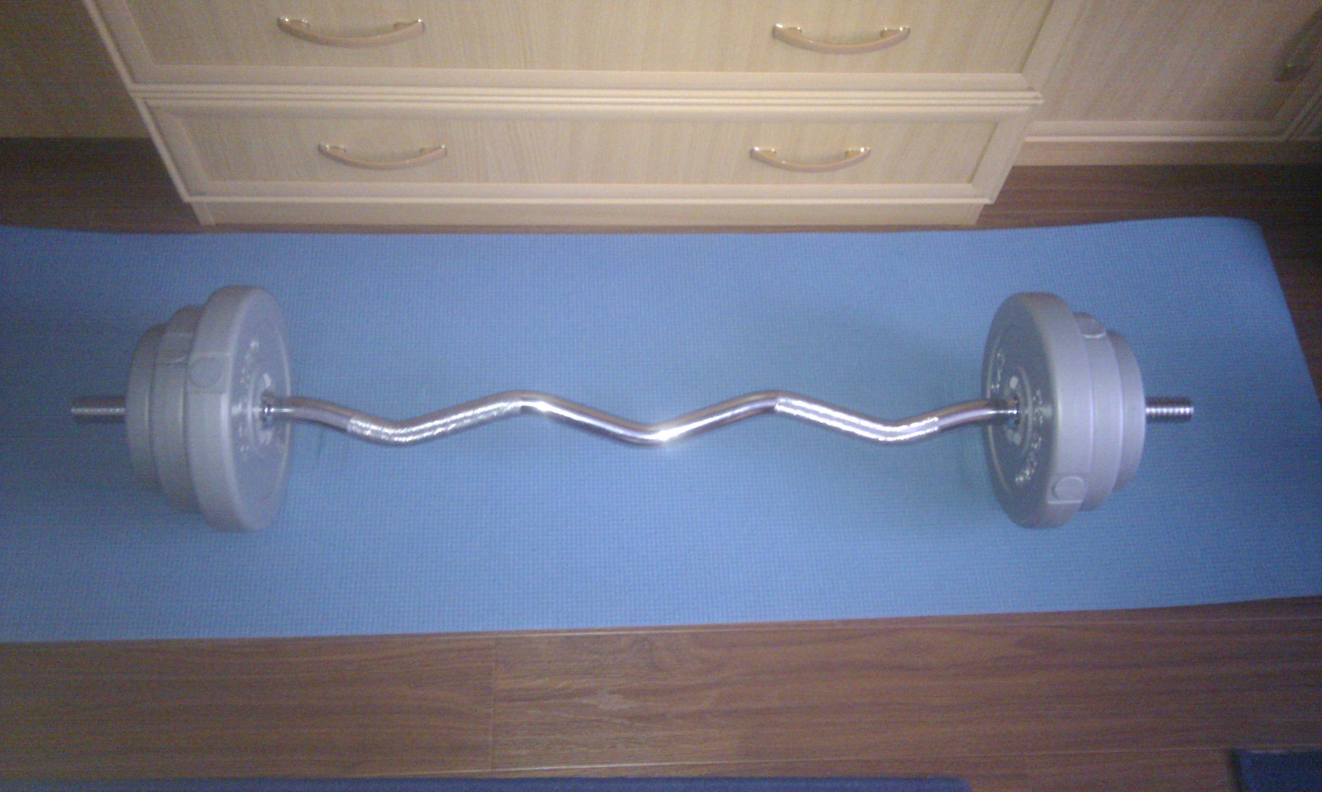 EZ-barbell "Torneo"